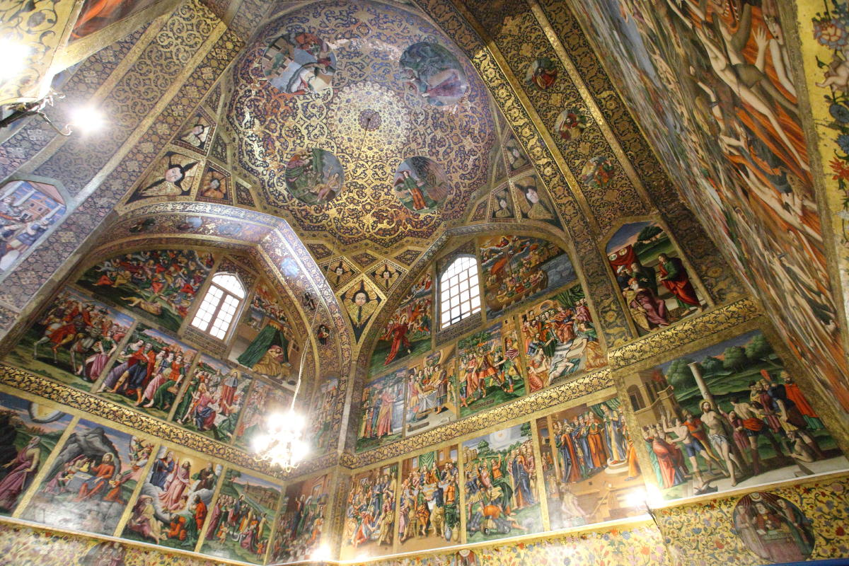 The interior of the Vank Cathedral, a 17th century Armenian church in New Julfa, Isfahan, Iran.